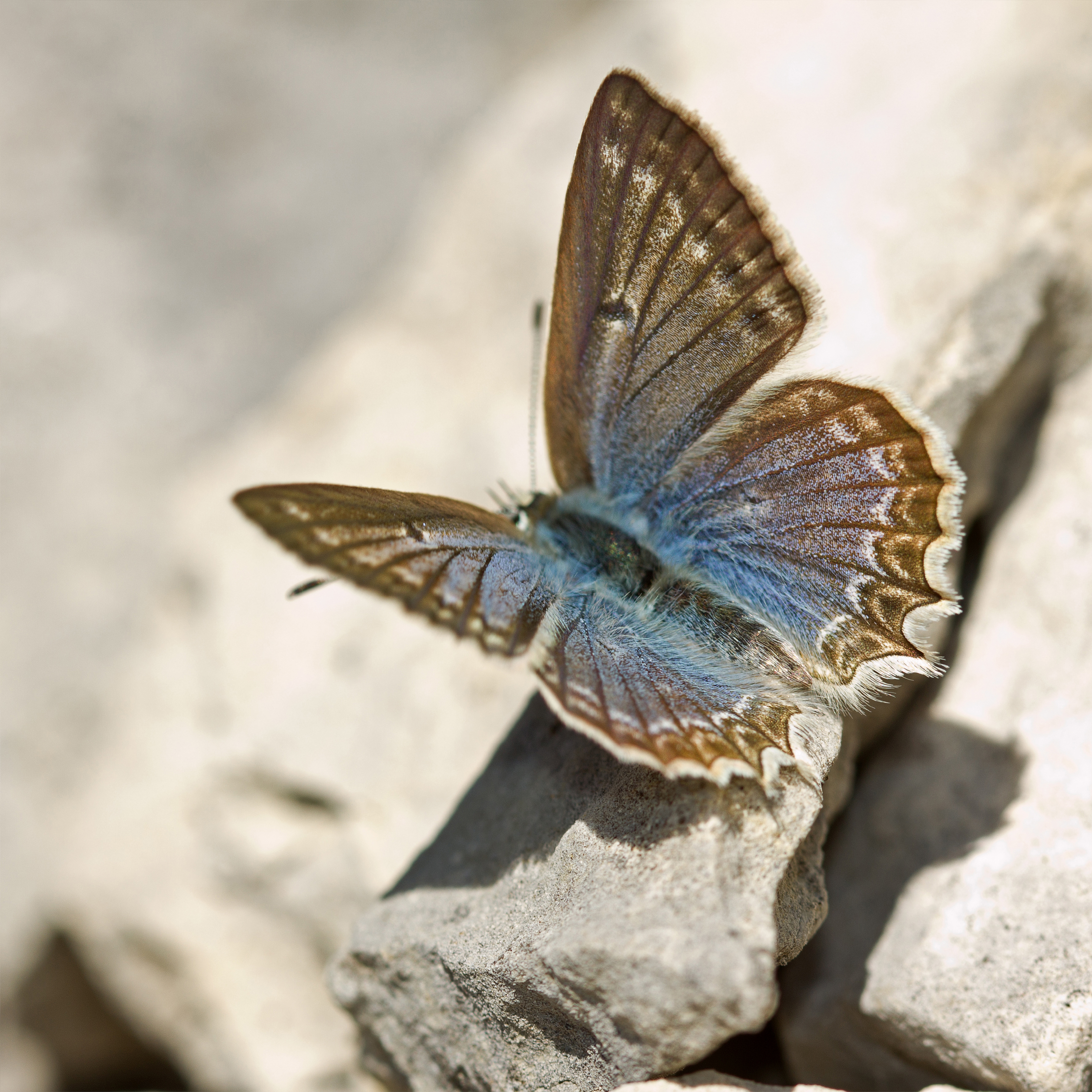 Meleager's Blue female taking a sun bath in a stony slope. Vercors, France.